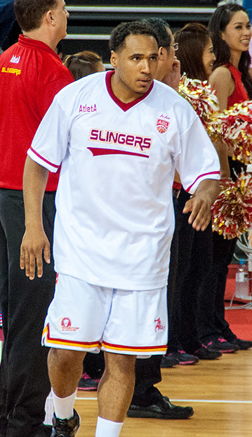 Dior Lowhorn making his first appearance for the Singapore Slingers in their match against the Indonesia Warriors at the OCBC Arena on 22 August 2014.